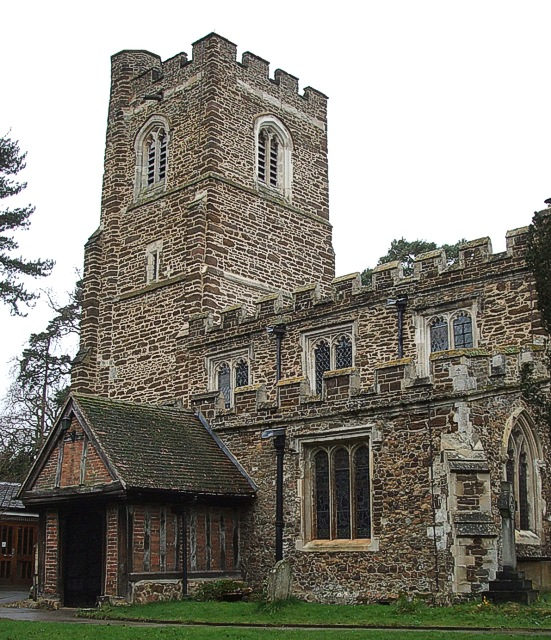 West tower, south porch and south aisle of SS Peter & Paul parish church, Flitwick, Bedfordshire, seen from the east